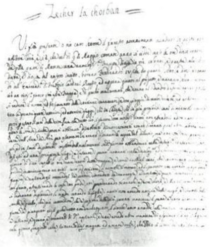 Document titled "Zecher la chorban" that recounts the events of the Altamuran Revolution (1799) in the city of Altamura. Its title is a Hebrew citation from the Bible and it means "Memory of the sacrifice"